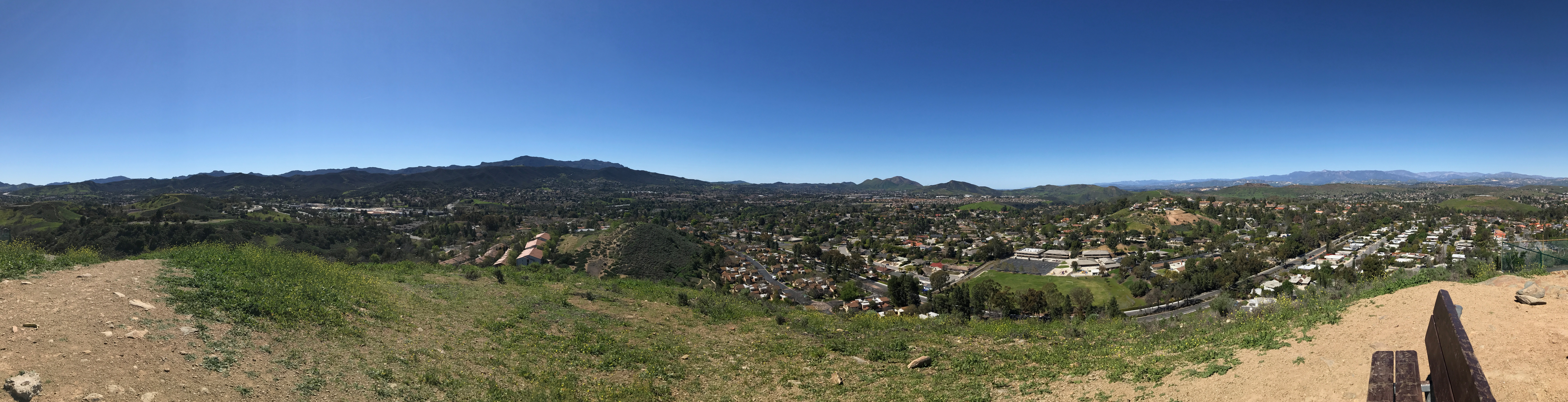 Panoramic view of western Thousand Oaks, California. Taken from atop Tarantula Hill.